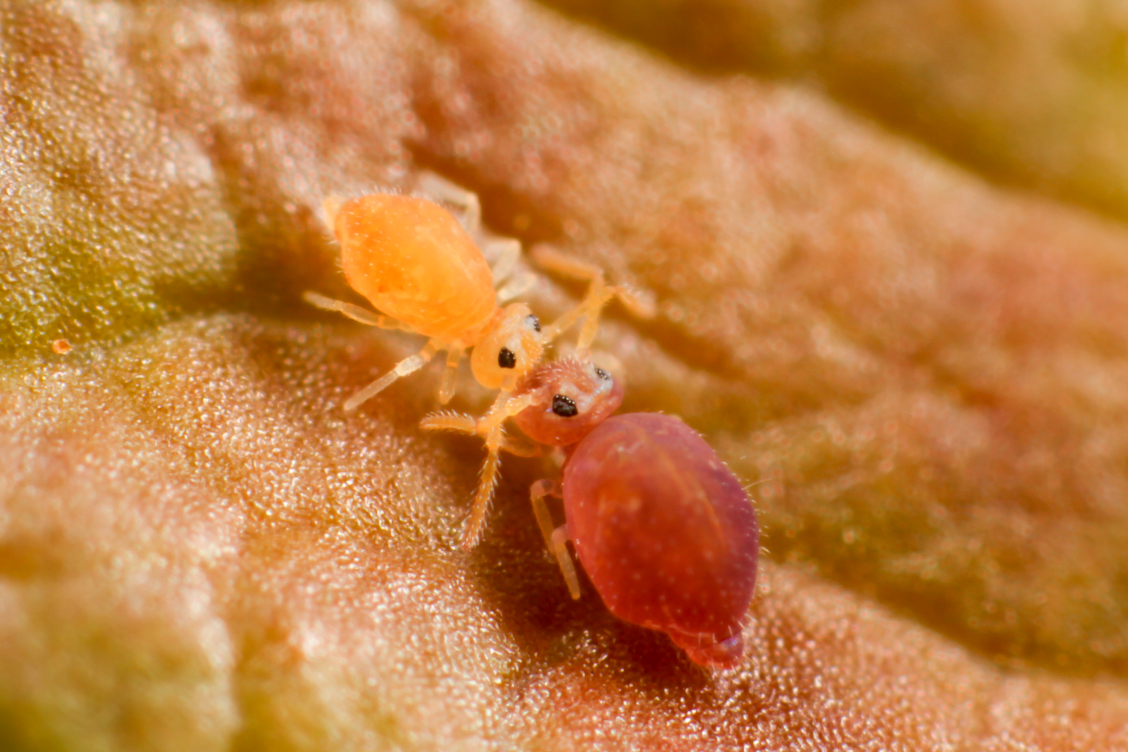 Courtship ritual of Deuterosminthurus pallipes.